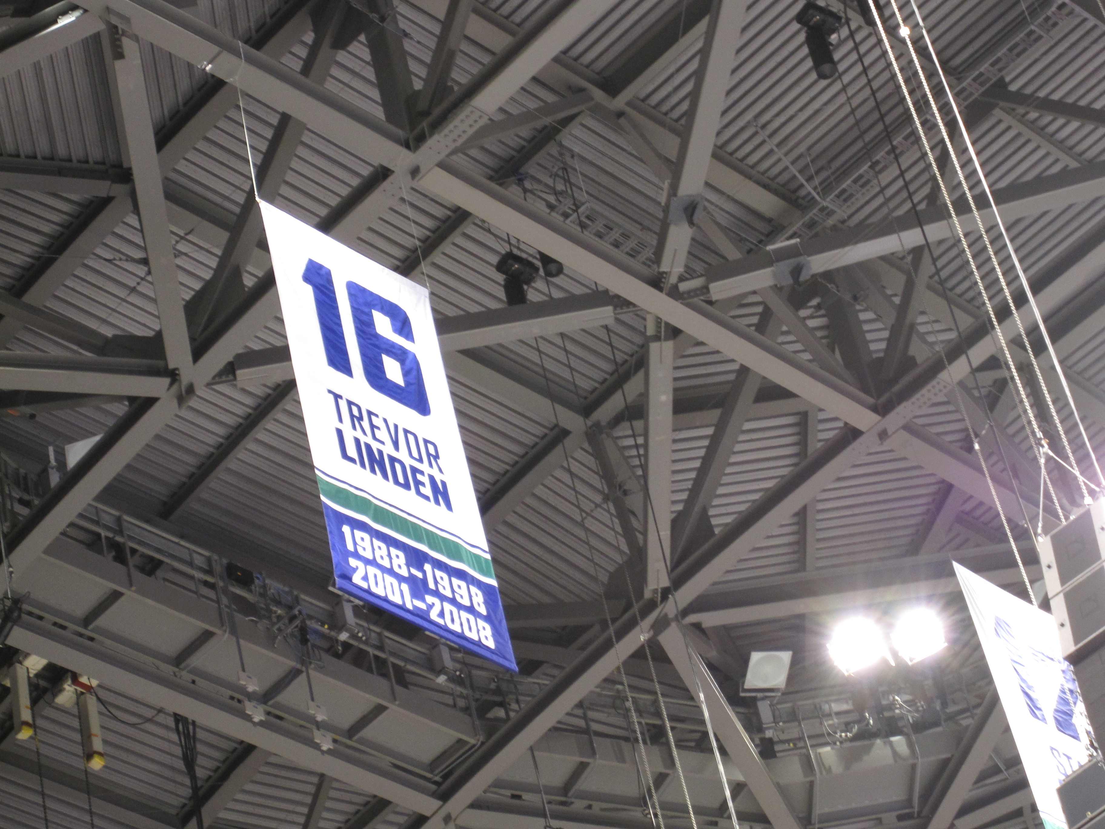 Picture of Trevor Linden's jersey hanging in the rafters at General Motors Place.